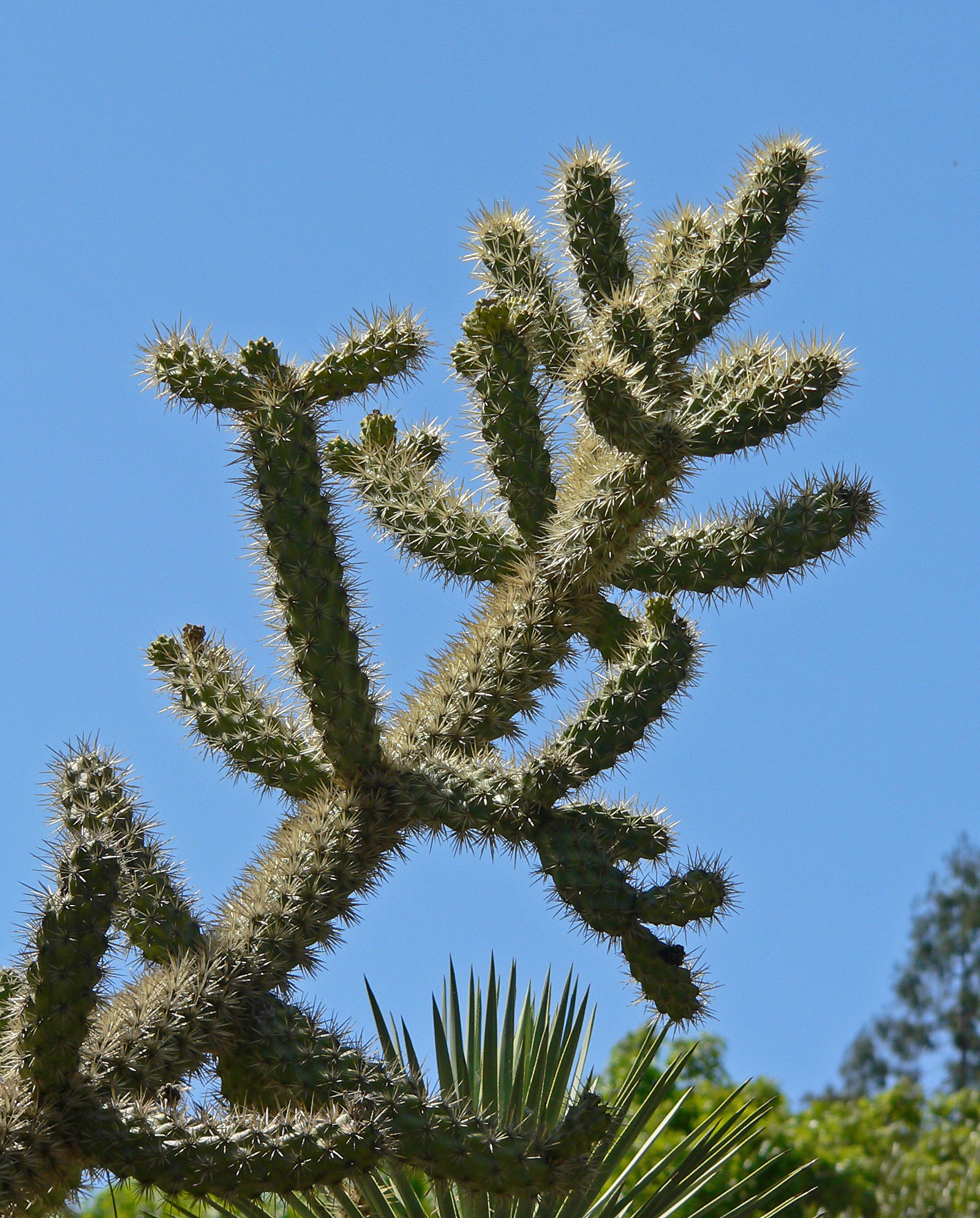 Photo of Opuntia munzii at the Regional Parks Botanic Garden, Berkeley, California